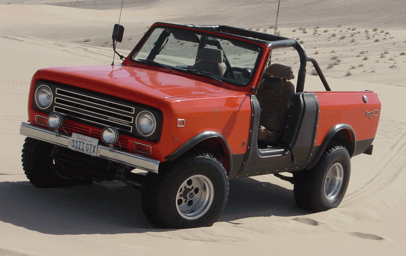 International Harvester Scout with the SSII package. Picture taken at Dumont Dunes California.